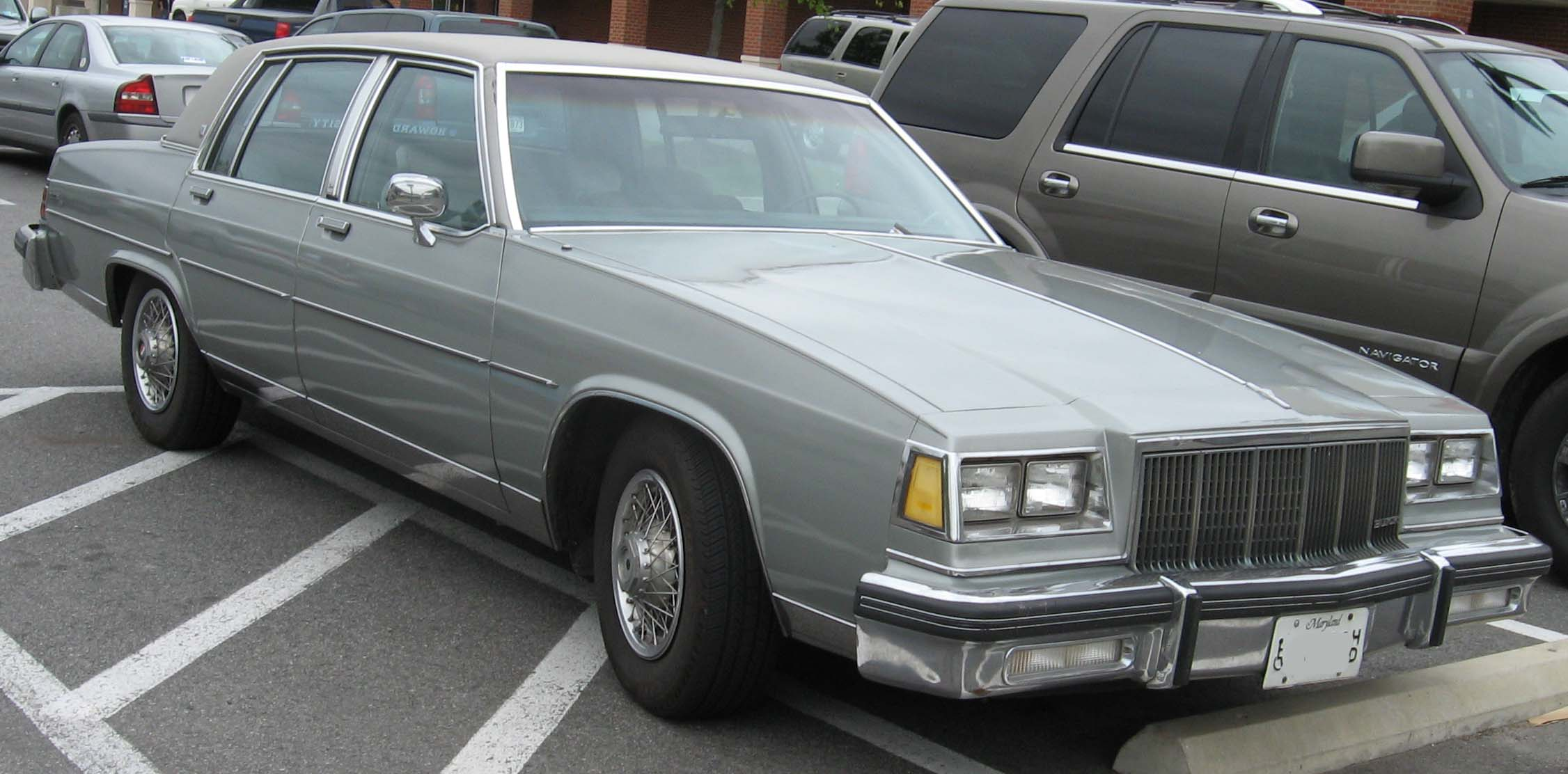 1980-1984 Buick Electra photographed in USA.